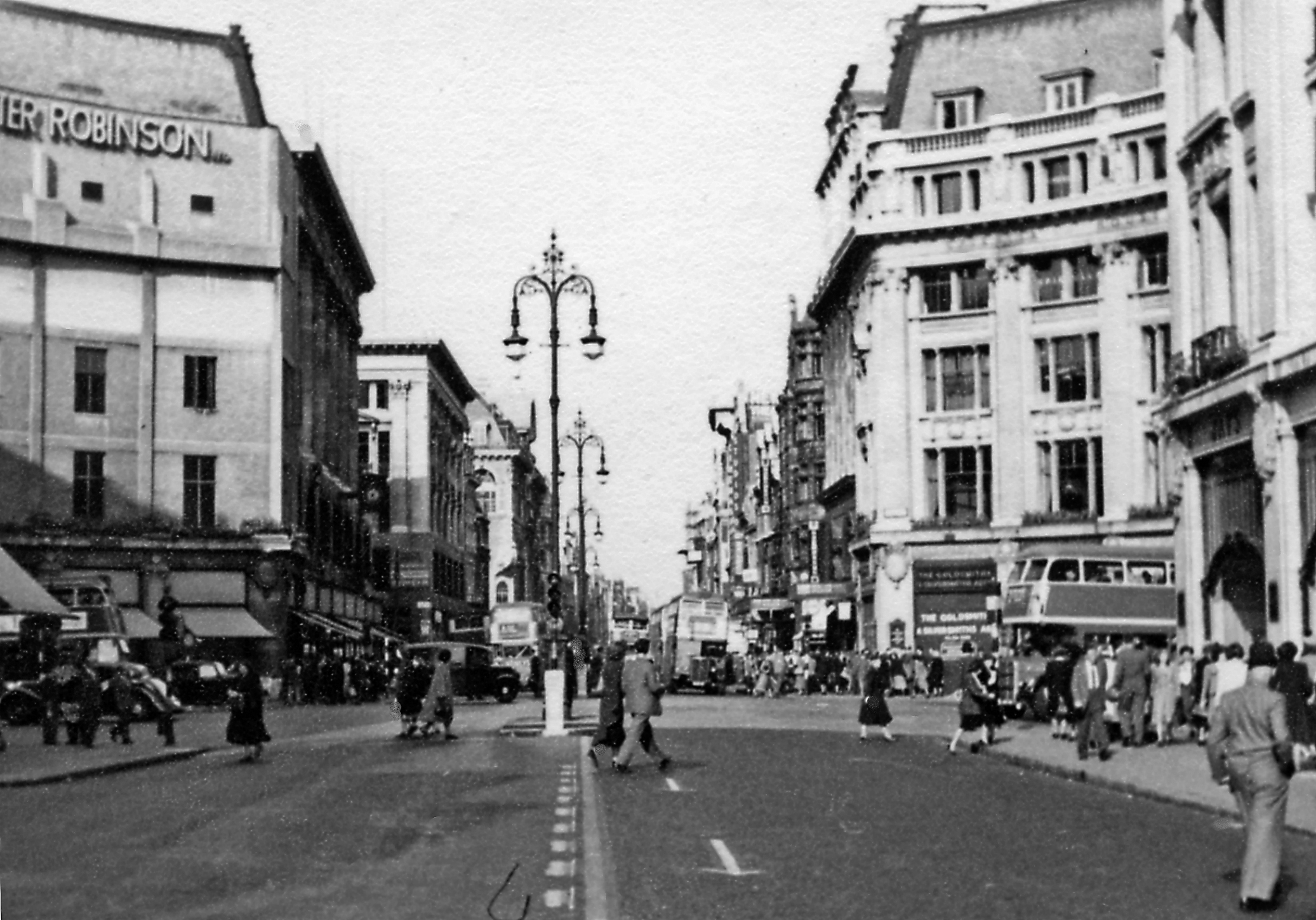 East on Oxford Street at Oxford Circus, 1949. Note the war-damaged facade of Peter Robinson's Store, but not a lot here has changed in 63 years.